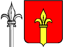 blason trieste+ javelot gaulois (origine fleur de lys) dessin perso; GFDL Old coast of arms of city of Trieste Ssire